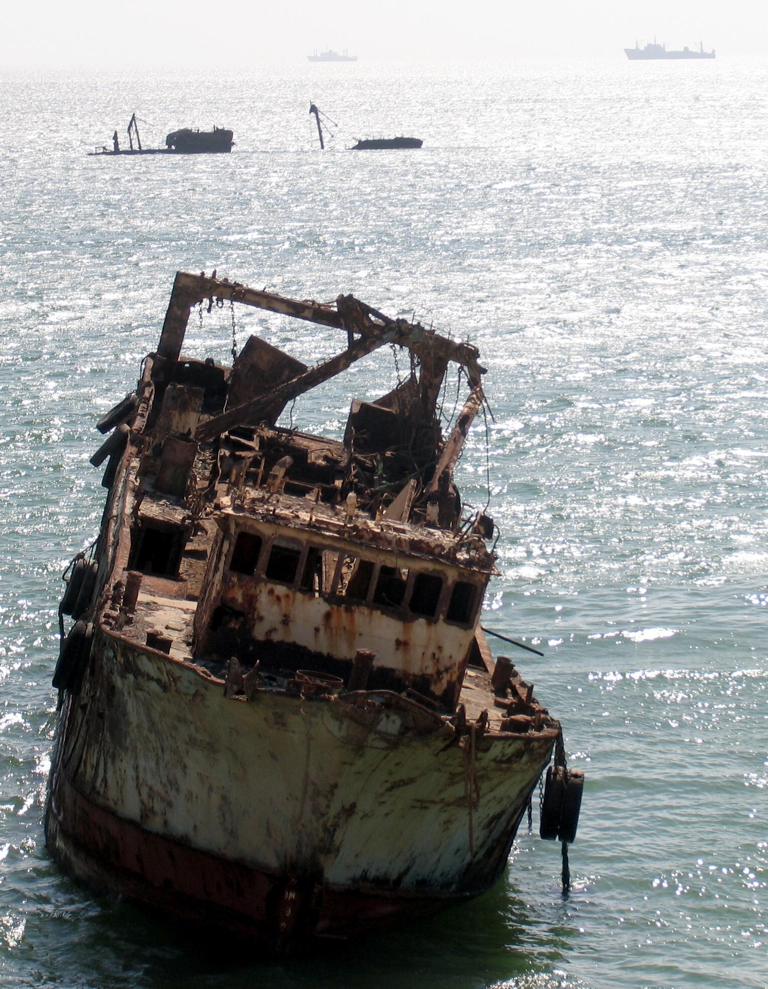 Ships graveyard, Nouadhibou, Mauritania